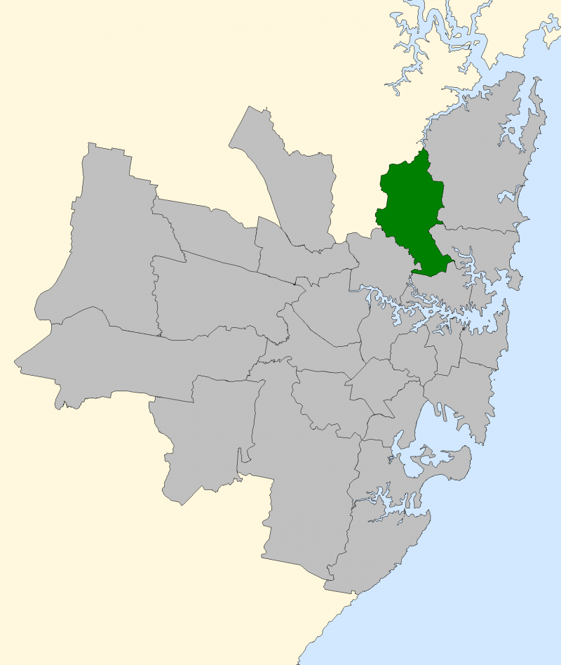 Division of Bradfield 2007, with surrounding Sydney divisions, based on official AEC data